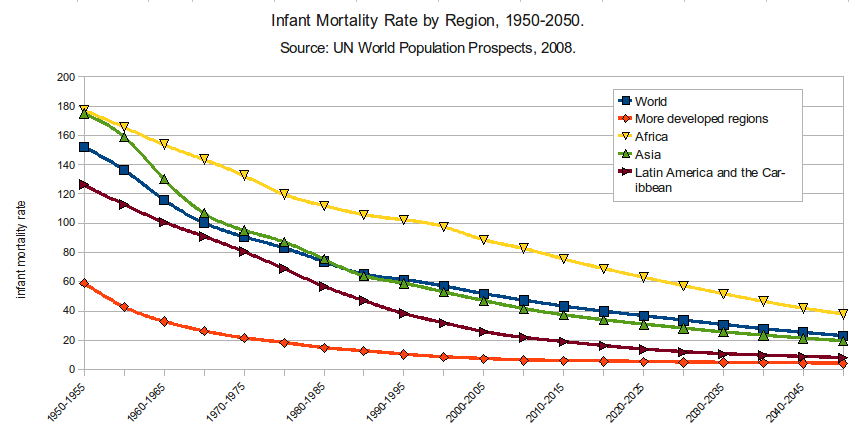 Figure illustrating trends in infant mortality rates by various regions from 1950-2050. Source is UN World Population Prospects, 2008.